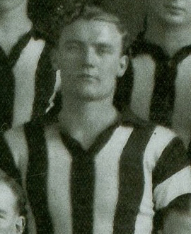 Photograph of Charlie Newman in 1940